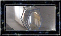 Glass shell bent to the profile of the outer ring of the telescope primary mirror